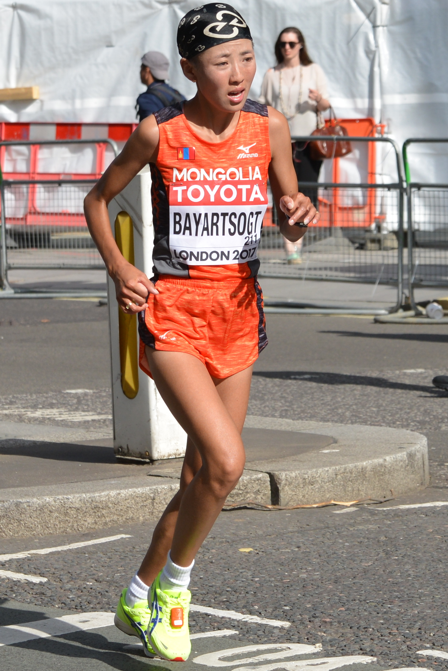 Bayartsogtyn Mönkhzayaa (Marathon, 2017 IAAF) Women's Marathon- 06/08/2017